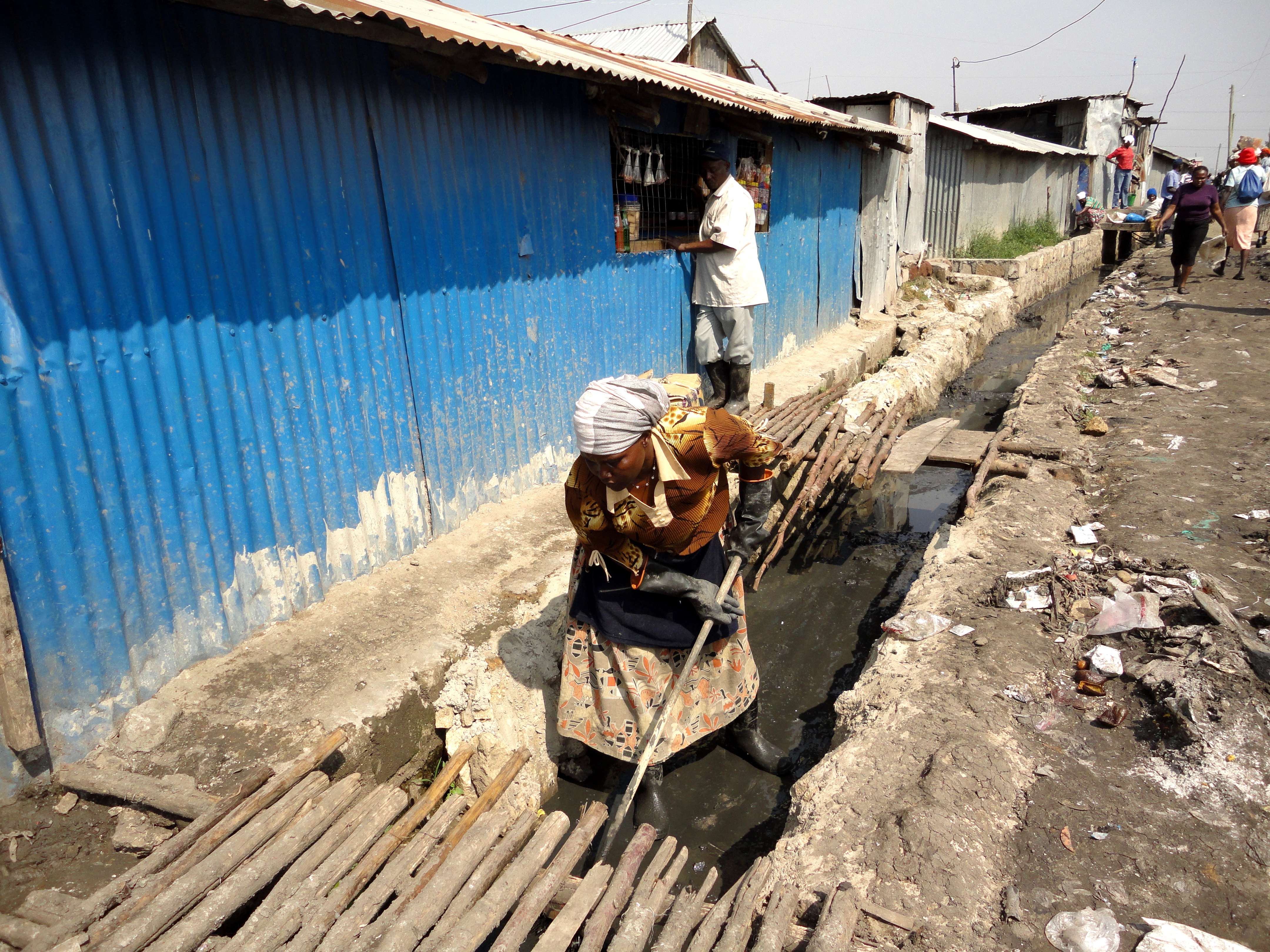 "Cash for work" projects in Mukuru Photo: Linda Ogwell/Oxfam. Find out more at: oxf.am/oUP